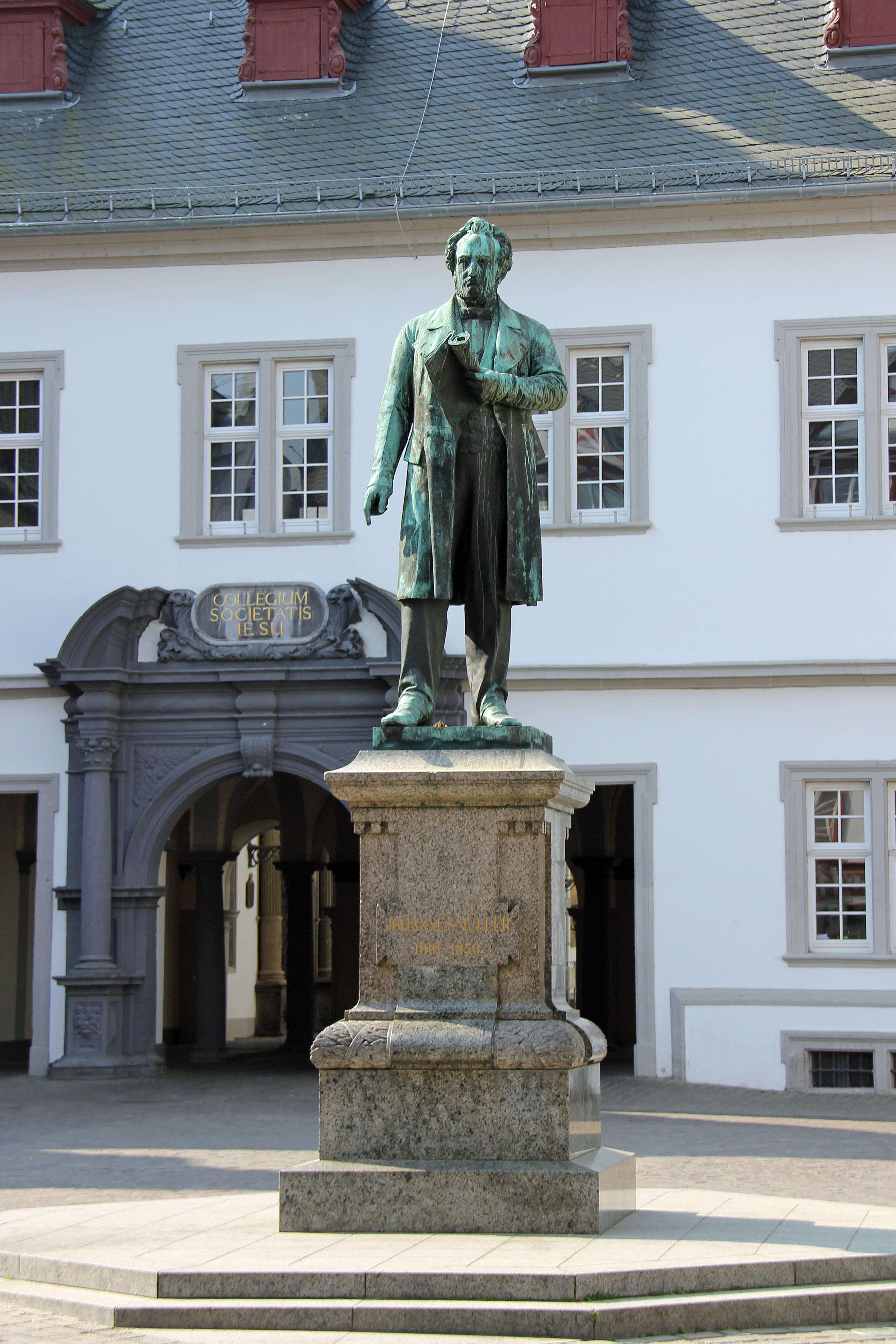 Johannes-Müller-Monument in Koblenz